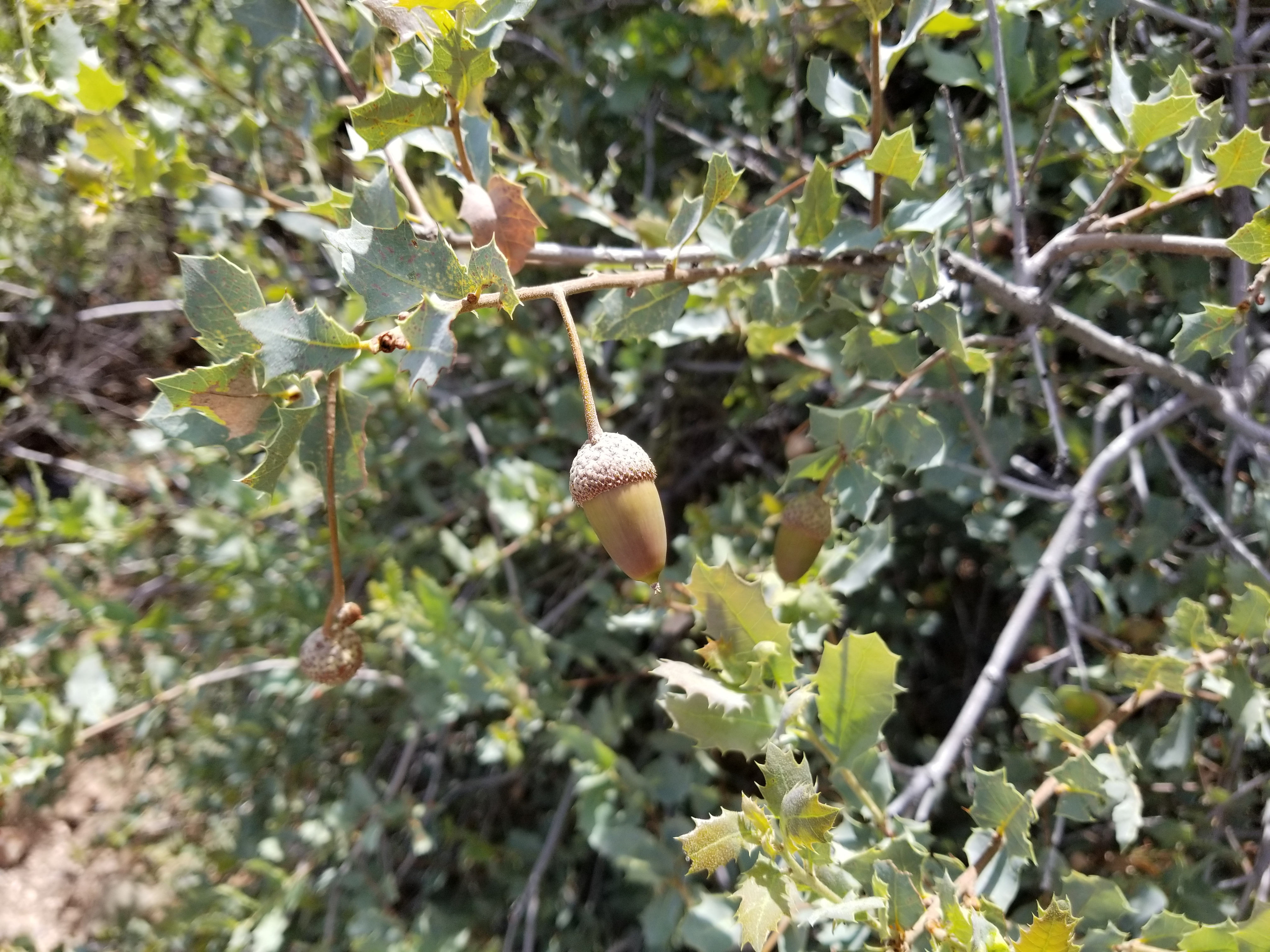 Quercus turbinella acorns. Common name Arizona shrub oak.